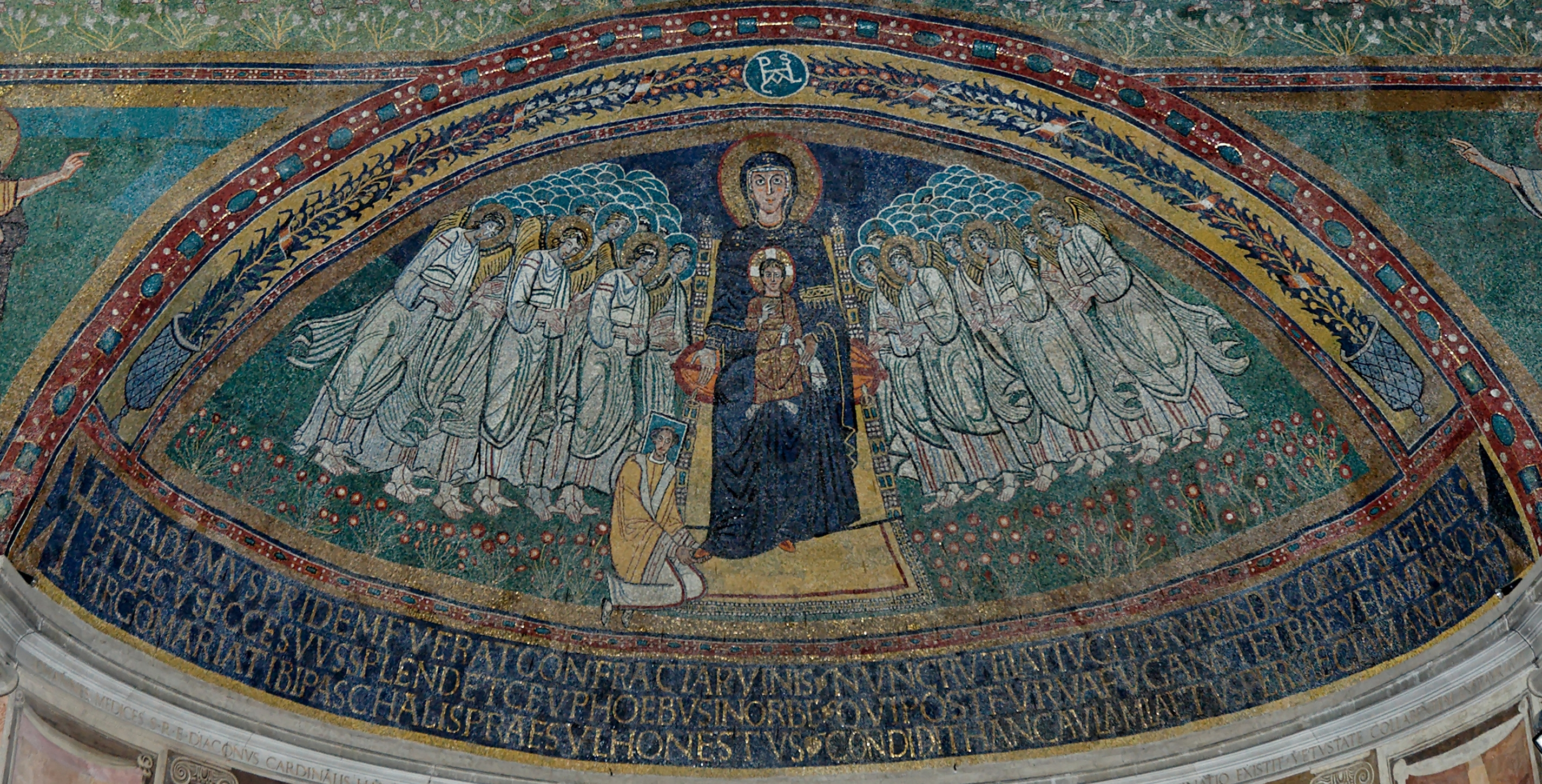 Madonna with Child and angels, with Pope Paschal I at her feet (square halo). Apsis mosaic from Santa Maria in Domnica, Carolingian Renaissance (8th–9th centuries), Rome.